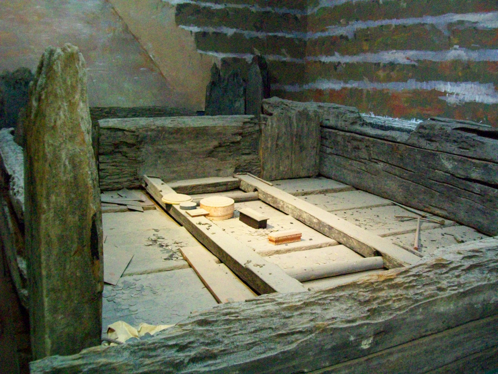 Tomb of Xiahou Zao, son of Xiahou Ying. Now located in the museum in Fuyang city, Anhui province, China. Texts and other items were found in the tomb, and the find was dubbed Shuanggudui.